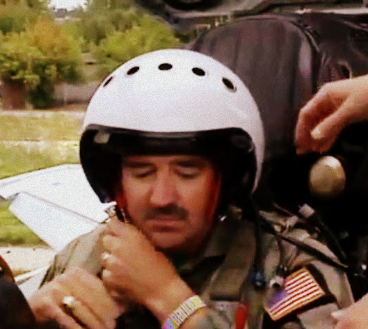 Pilot Jeffrey L. Ethell, call-sign "Fighter Writer," secures his helmet in preparation for a hop in the Sukhoi Su-27.